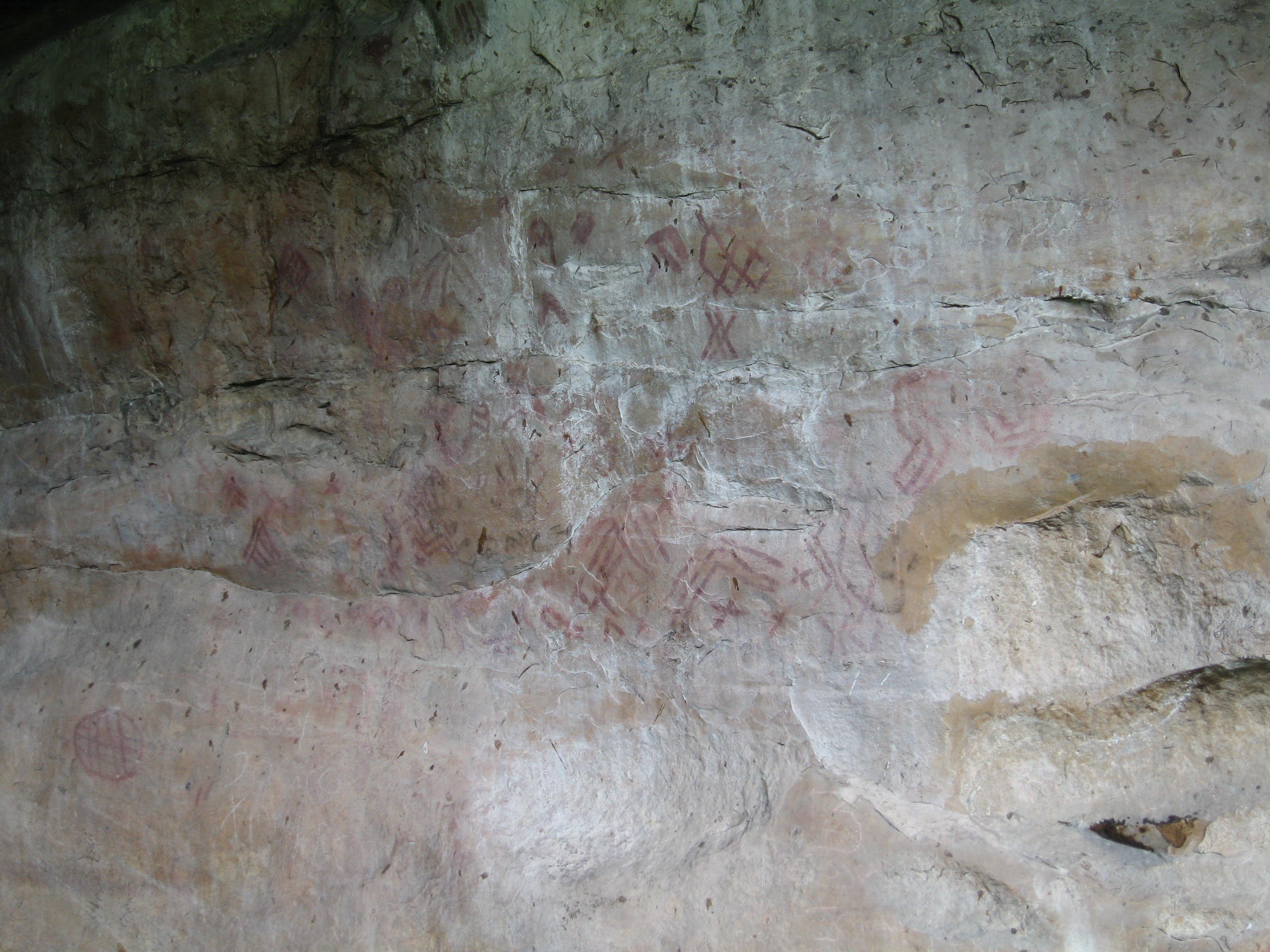 Vandalised pictograph in the archaeological park of Facatativa